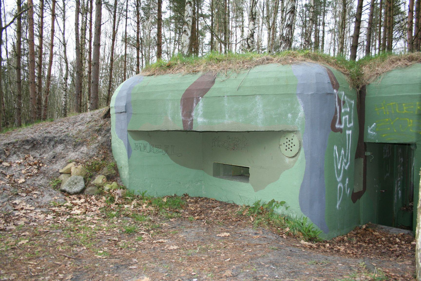 Schron Jastarnia [1]